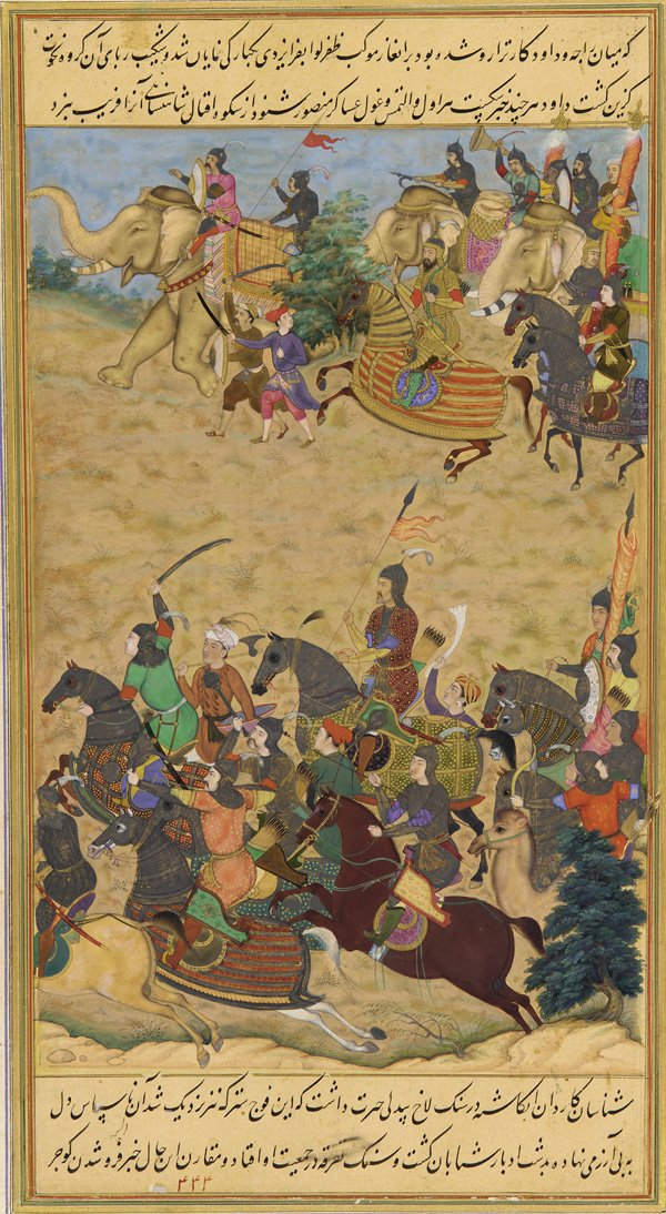 A Mughal painting by Manohar created between 1596 and 1600 depicting the Mughal Army during the war fought against the last Bengal Sultan Daud Khan Karrani.